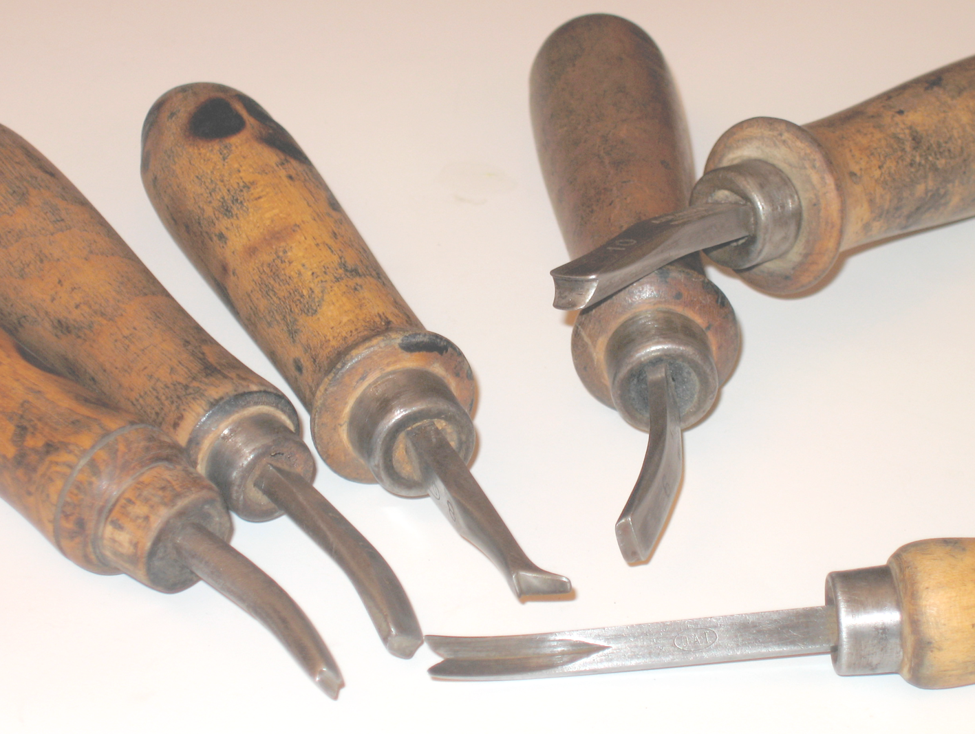 Gouges for leather-working